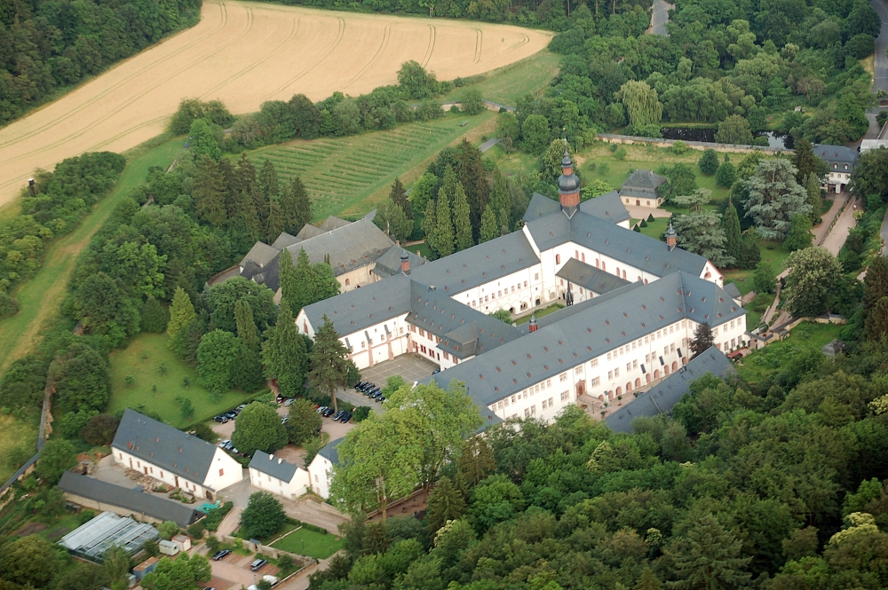 Monastery Eberbach, Germany